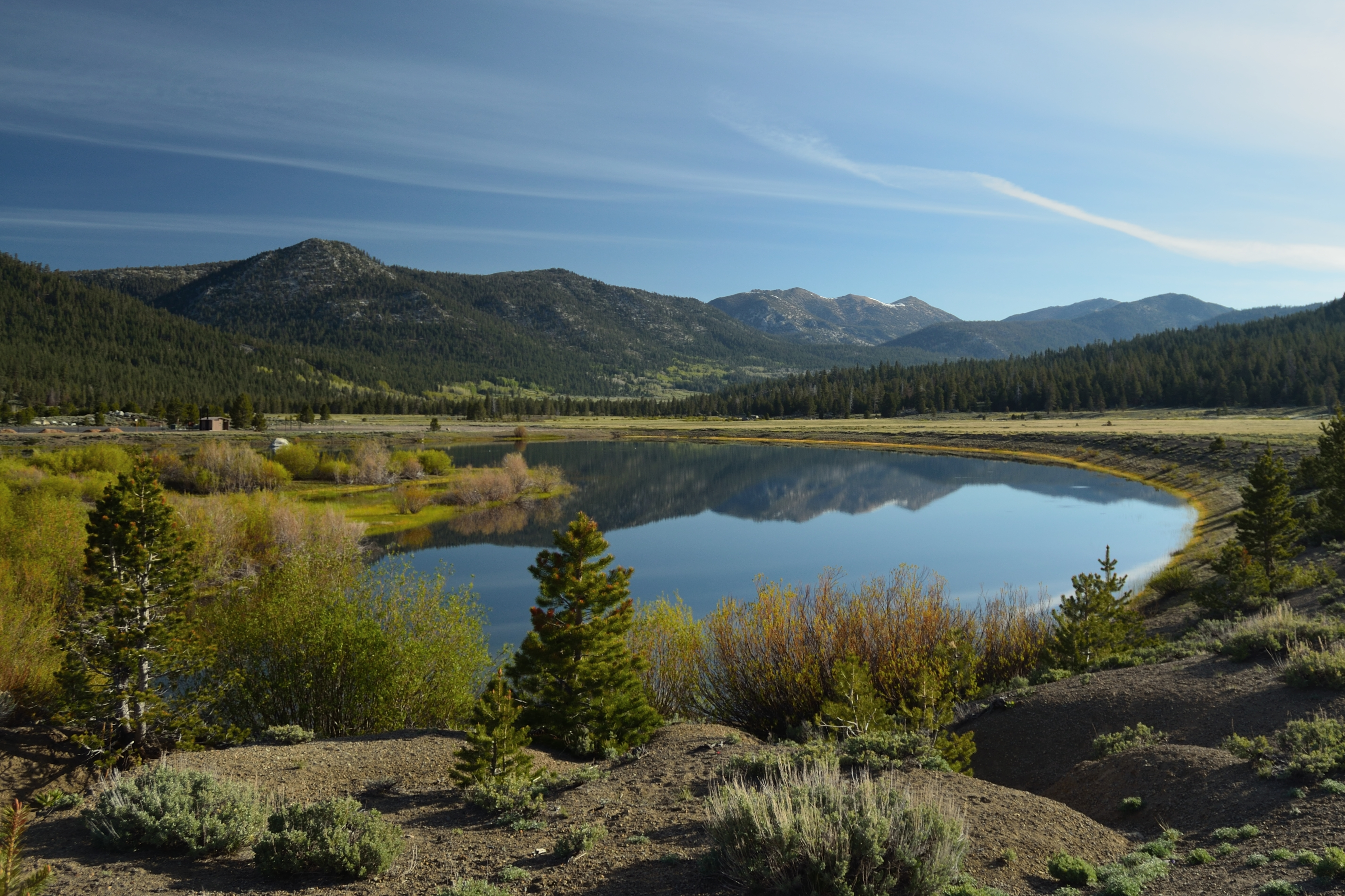 Hope Valley along the Blue Lakes Road off California State Route 88.